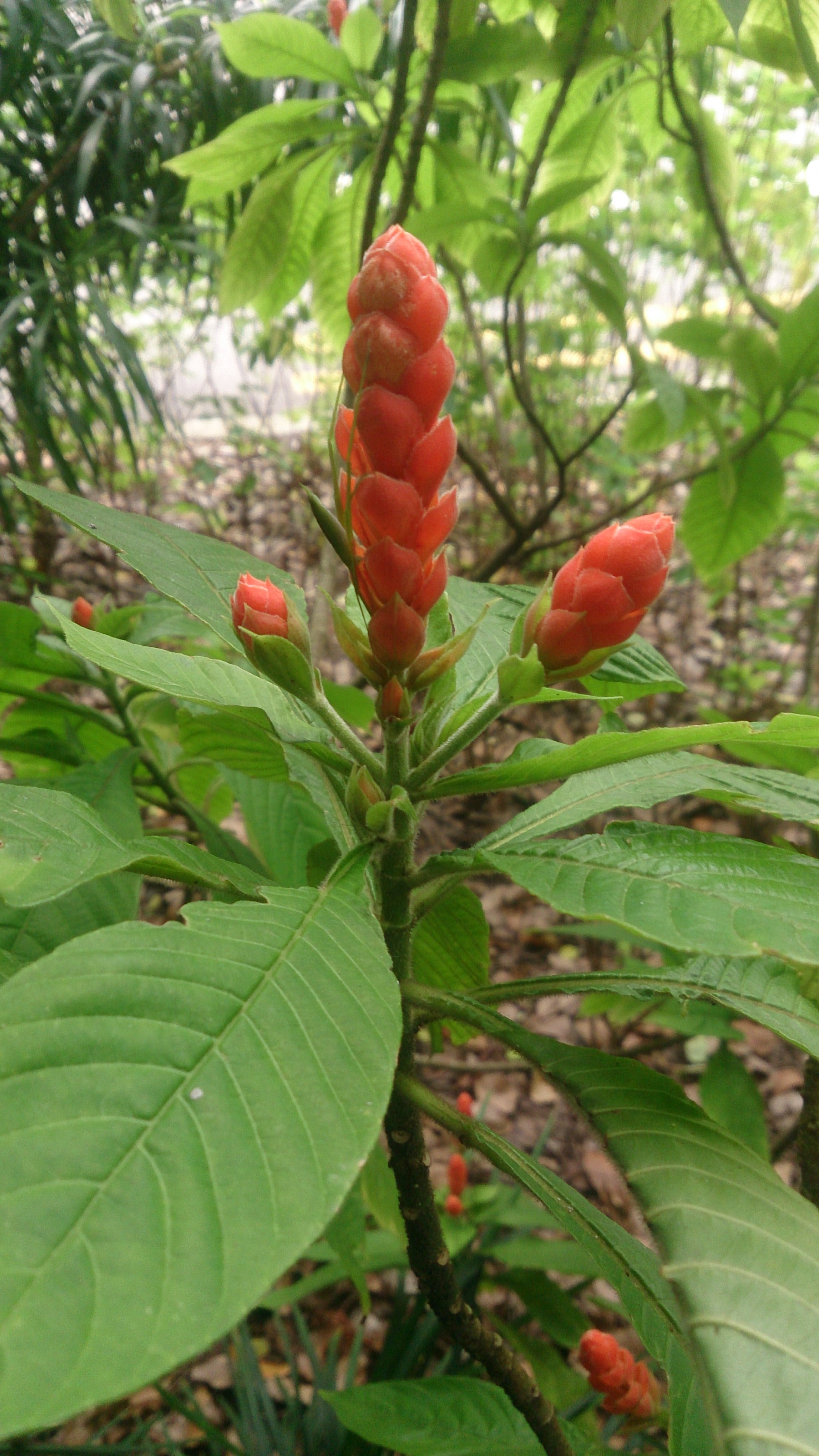 Aphelandra sinclairiana. Common names: Orange Shrimp plant, Coral Aphelandra, Panama Queen. Same genus as the Zebra Plant (Aphelandra squarrosa).